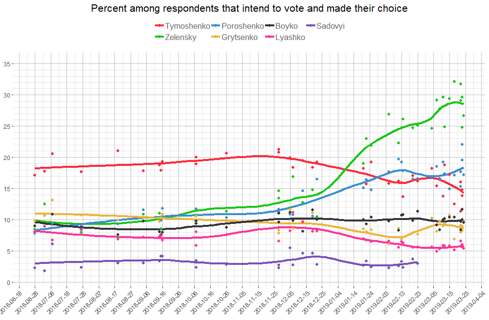 Graphical visualization of opinion polls during presidential elections in Ukriane 2019. The chart is based on data of trustworthy pollsters (KIIS,Rating Group, Social Monitoring, Socis, Razumkov Center, Info Sapience/GfK Ukraine )